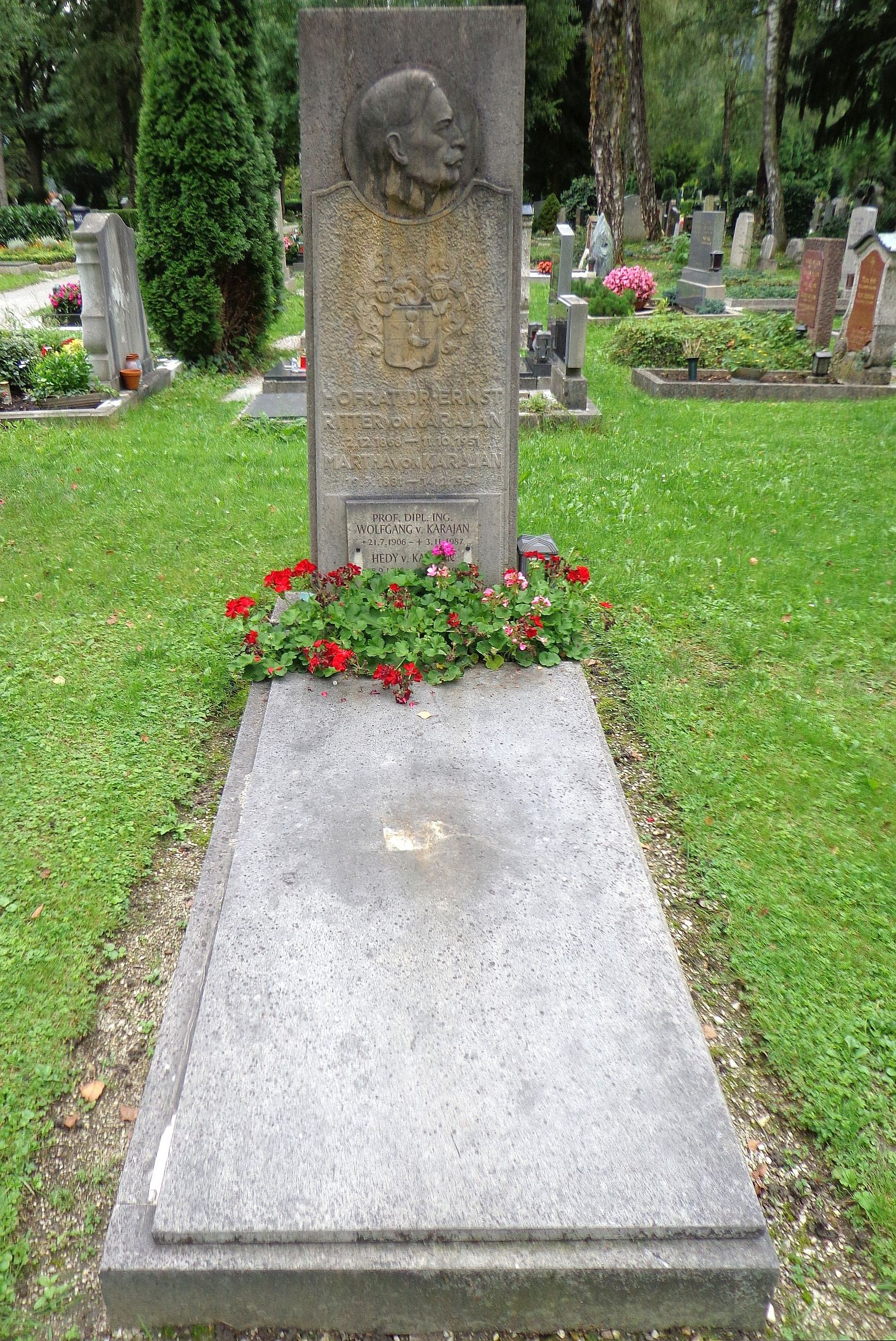 Family grave of Dr. Ernst von Karajan, his wife Martha von Karajan (parents of the conductor Herbert von Karajan) as well as of Prof. Wolfgang von von Karajan and his wife Hedy von Karajan. Grave location: Salzburger Kommunalfriedhof, Gruppe 60, Reihe 3, Ordnung 1, Grabnummer 003.